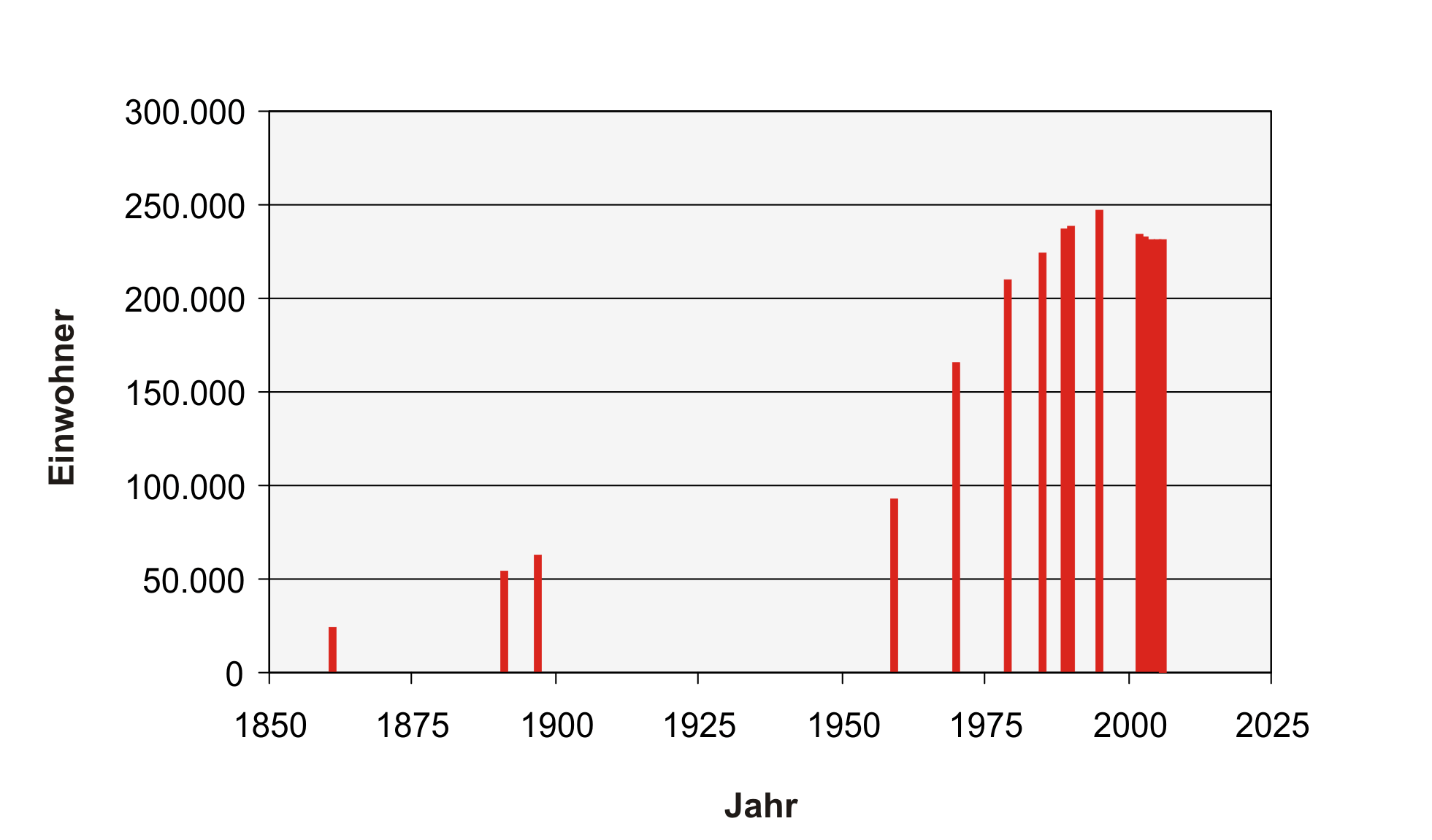 Description = Krementschuk Population Source = own work, Skluesener Date = 09.12.2006 Author = Skluesener